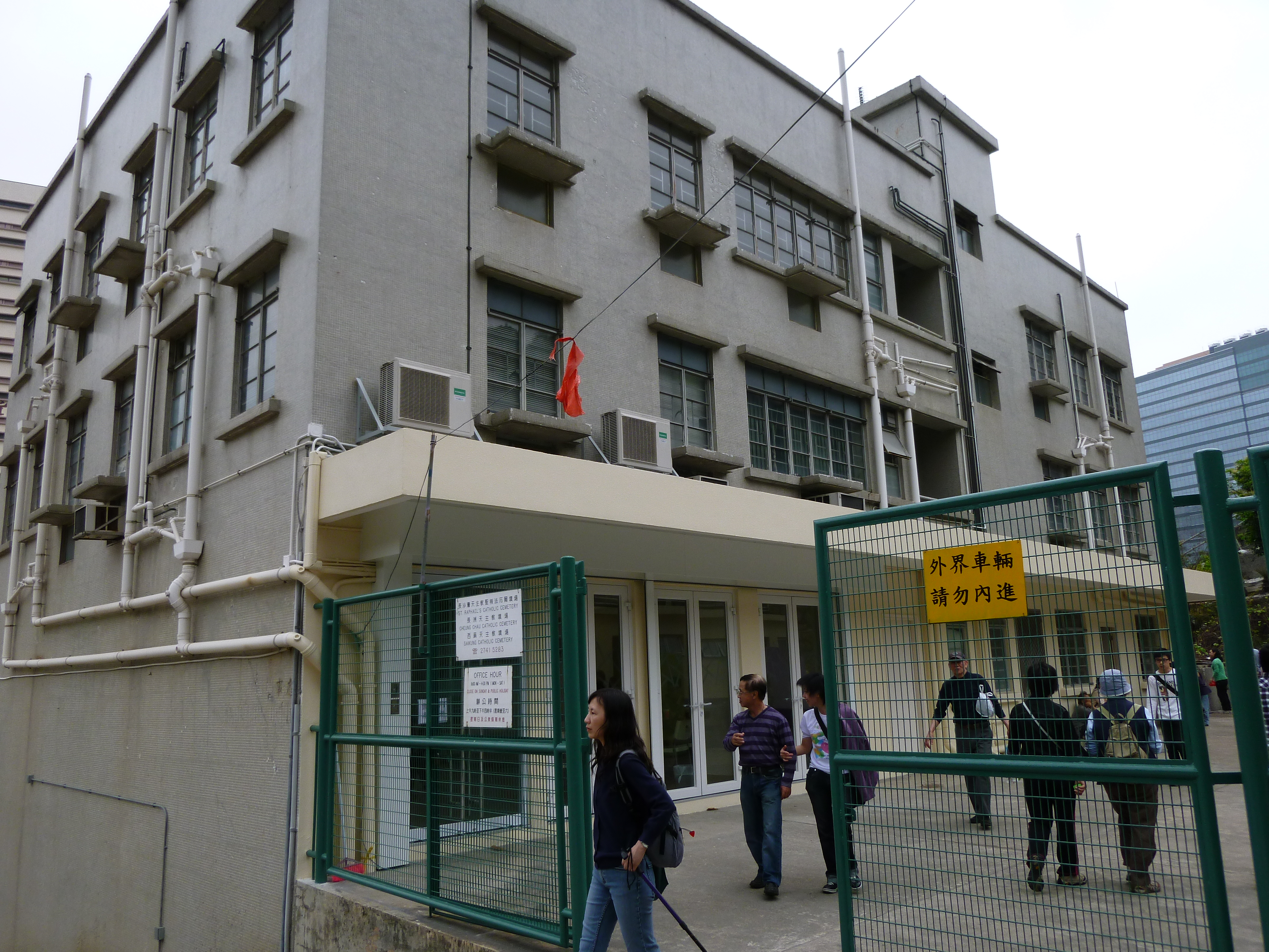 St. Raphael's Catholic Cemetery - office (Cheung Sha Wan, Kowloon, Hong Kong)